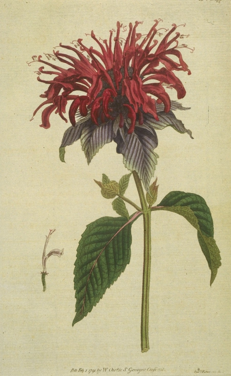 Reproduction of an image that appeared in The Botanical Magazine vol. 5. no. 145 (1792). It depicts Monarda didyma (then still called Monarda fistulosa) by Sydenham Edwards. The above source is reproduce at NAL, a US government site that has many images avail. This was selected over many alternatives. The site says it was published in 1791, reissued in 1796.